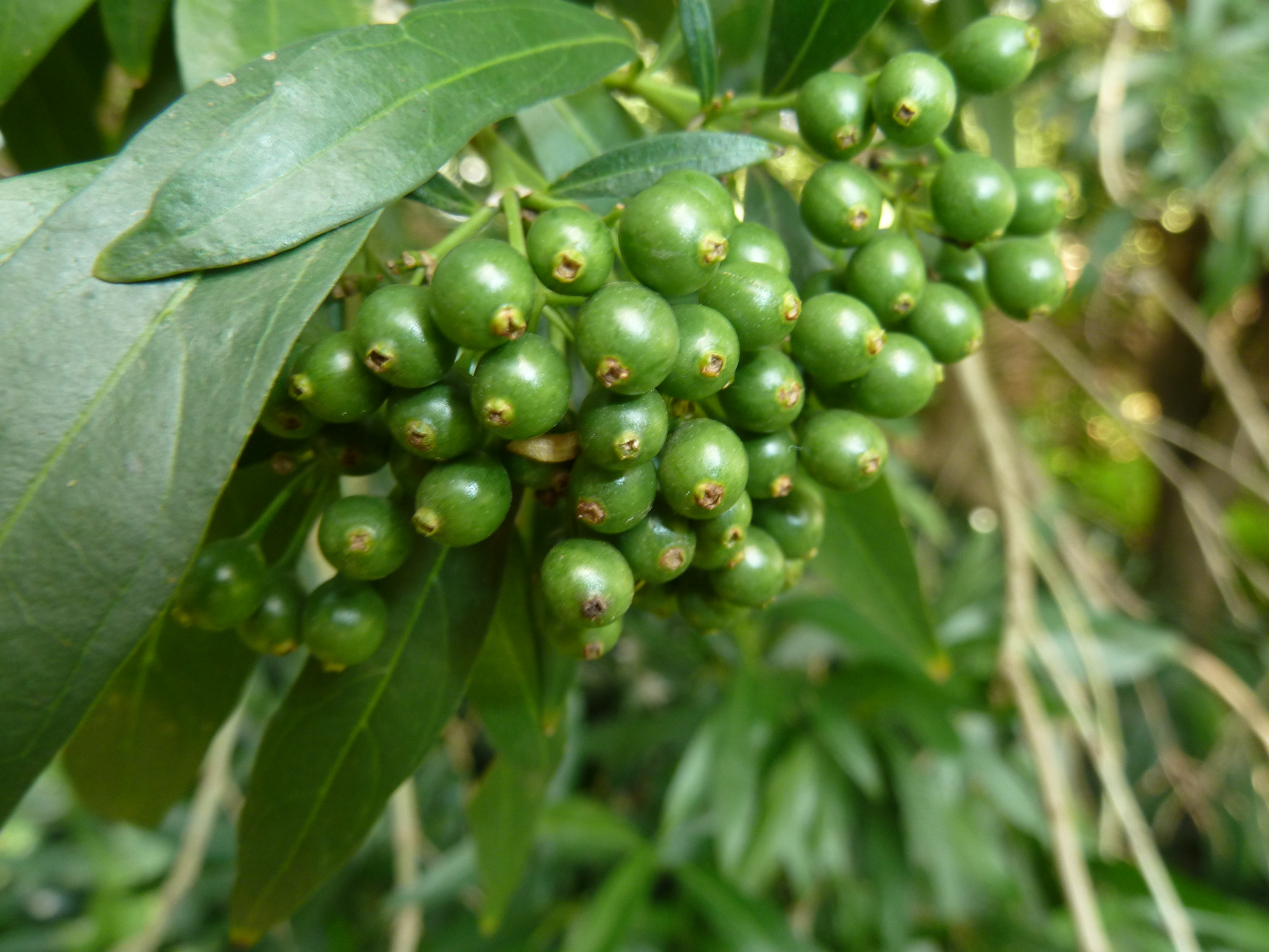 Fruit of a Weeping bride's bush in Walter Sisulu National Botanical Garden, Roodepoort, South Africa